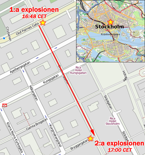 Map of the 2010 Stockholm bombings (Swedish-language version)